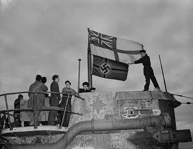 Canadian seamen raise the White Ensign above a German submarine in St. John's, Newfoundland, in 1945